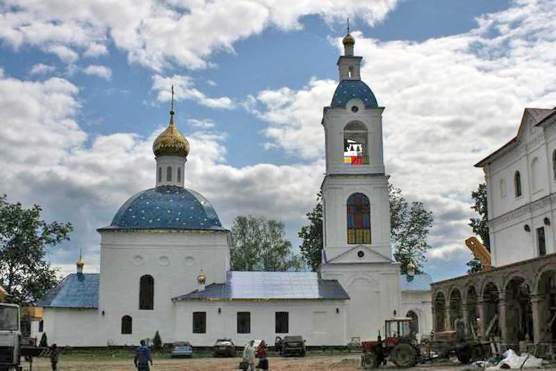 Yaroslavl Oblast. Nikolo-Solbinsky Monastery